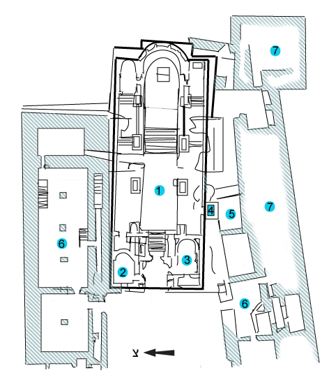 Church of the Transfiguration